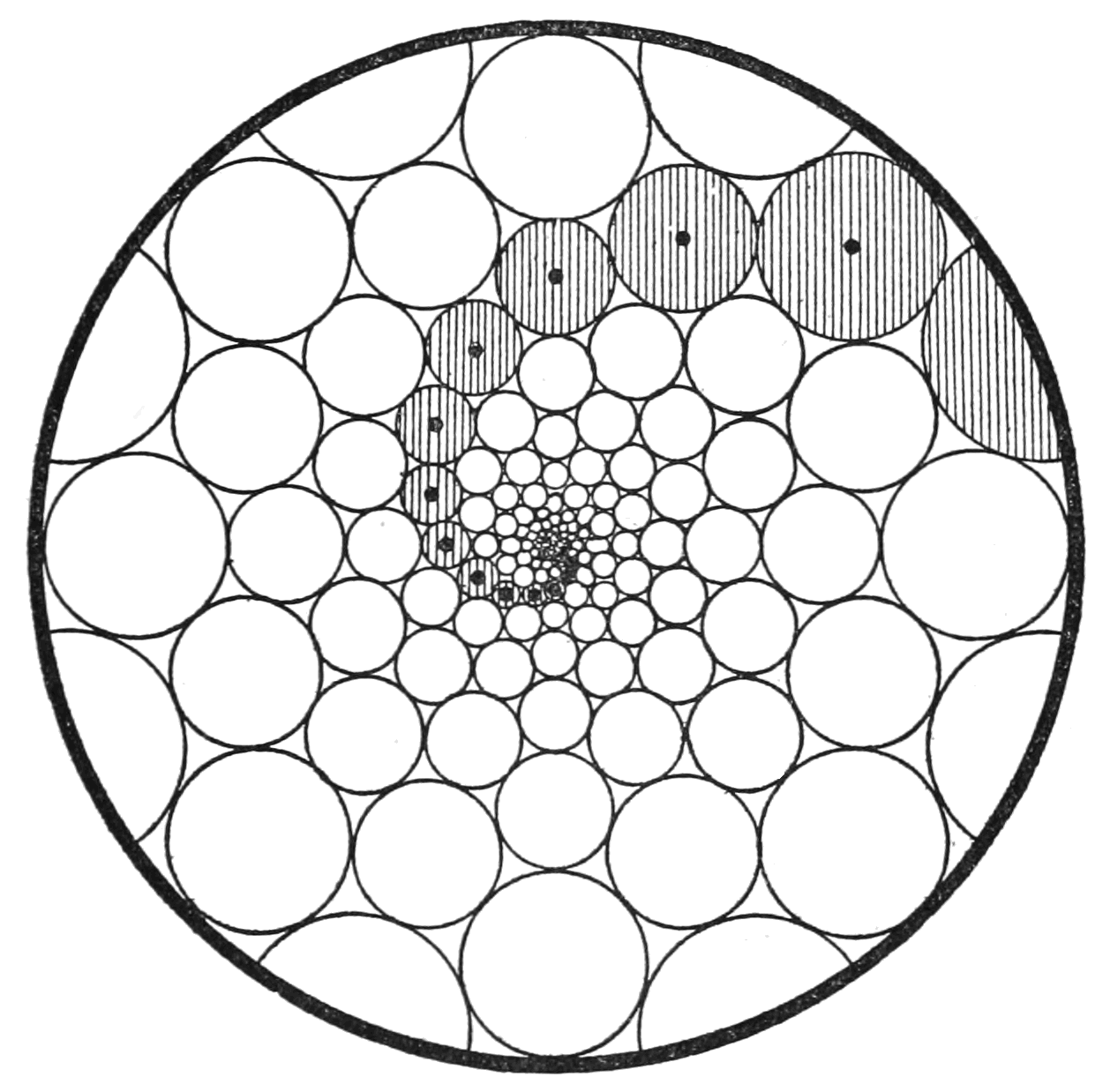 Logarithmic spiral in flower growth configuration